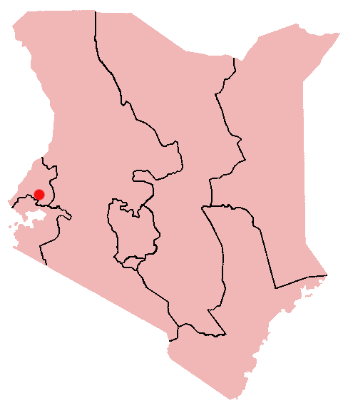 Kakamega, Kenya Location Map; created with the GIMP. Made by User:Acntx.